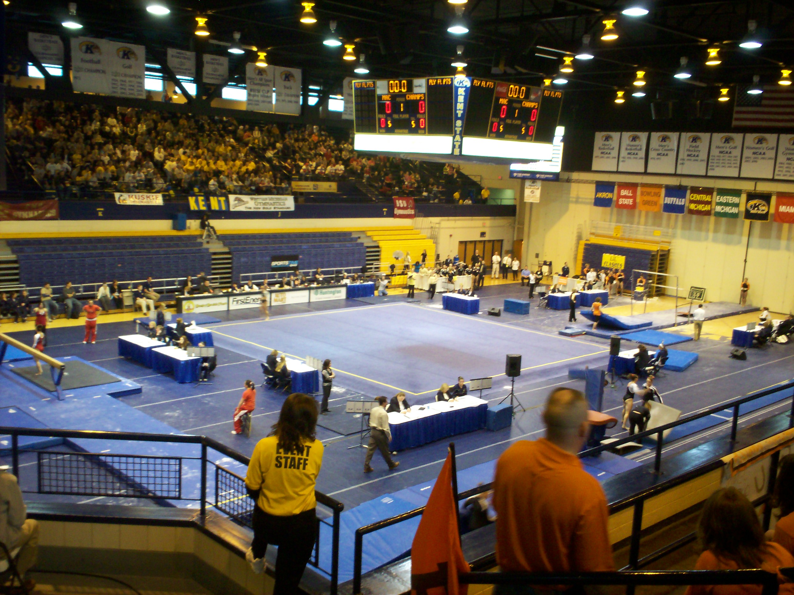 Interior view of the Memorial Athletic and Convocation Center in Kent, Ohio, set up for the Mid-American Conference Gymnastics championship meet.